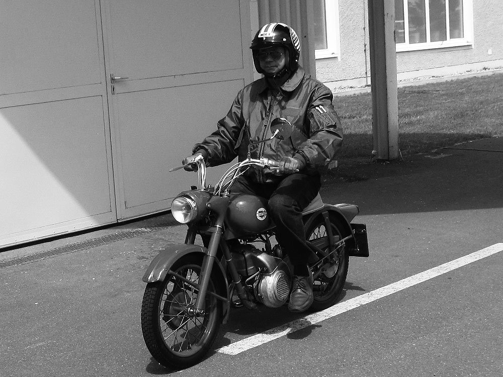 Puch 150 A (Allstate): Puch 125 TT-frame with aircooled scooter-engine